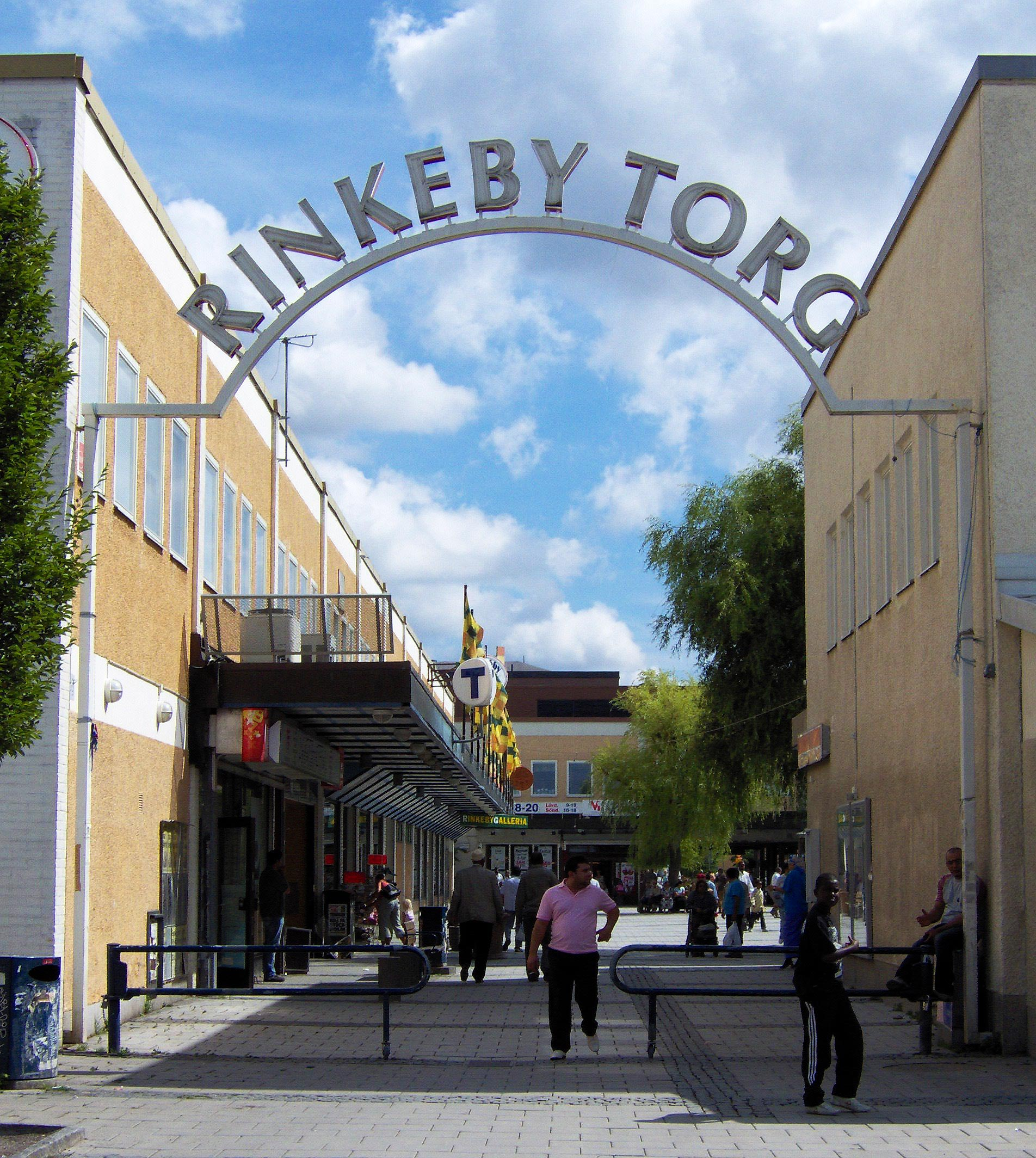 Retouched version of Image:Rinkeby torg.JPG - hightened contrast and sharpened